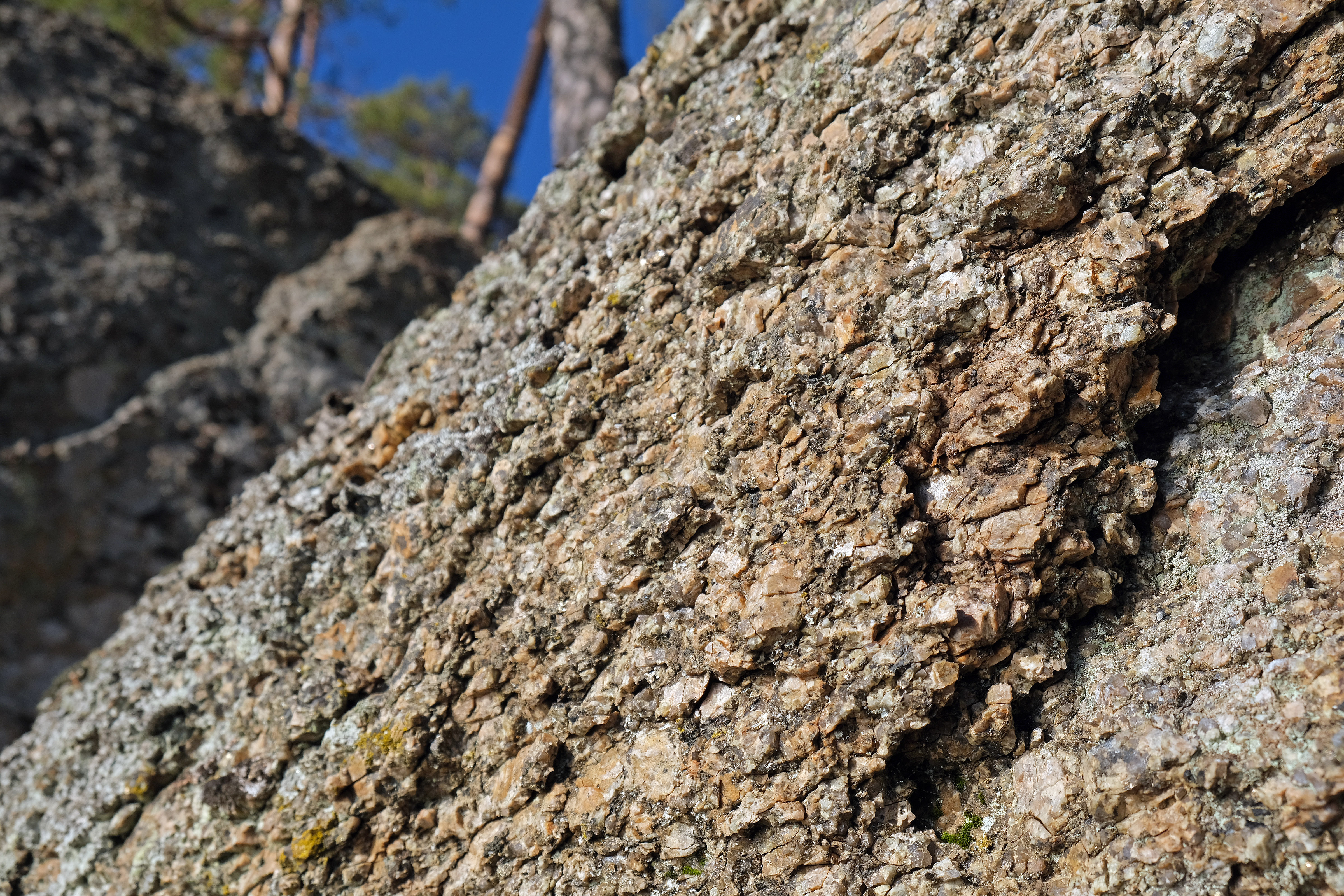 Decomposed, weathered rapakivi granite (moro) on the shore of Narvijärvi, near Rauma, Finland.